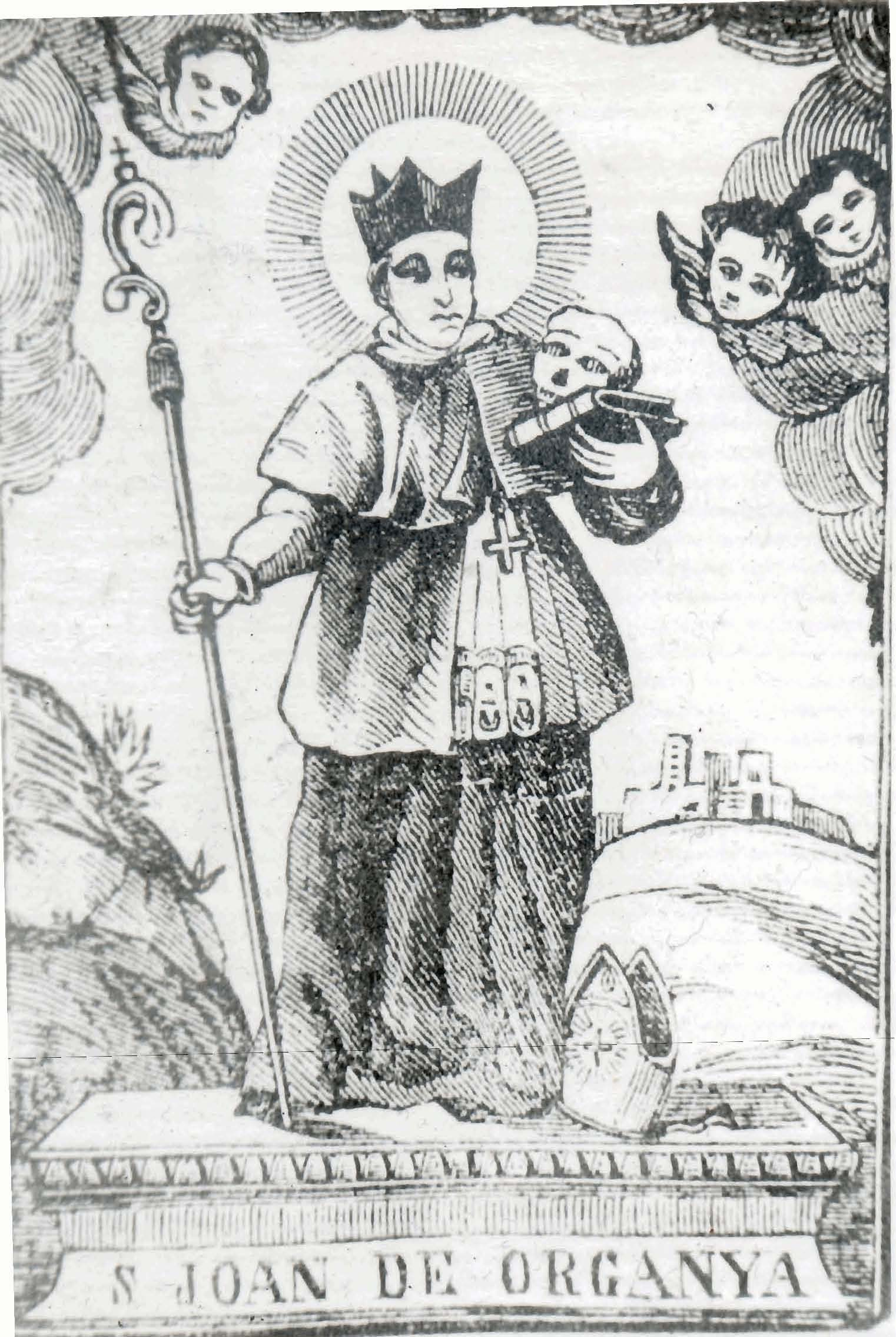 Woodprint with blessed John of Organyà, premostratensian canon of Urgell, Catalonia, from a "goig" of 18th century end or 19th cent. beginning.